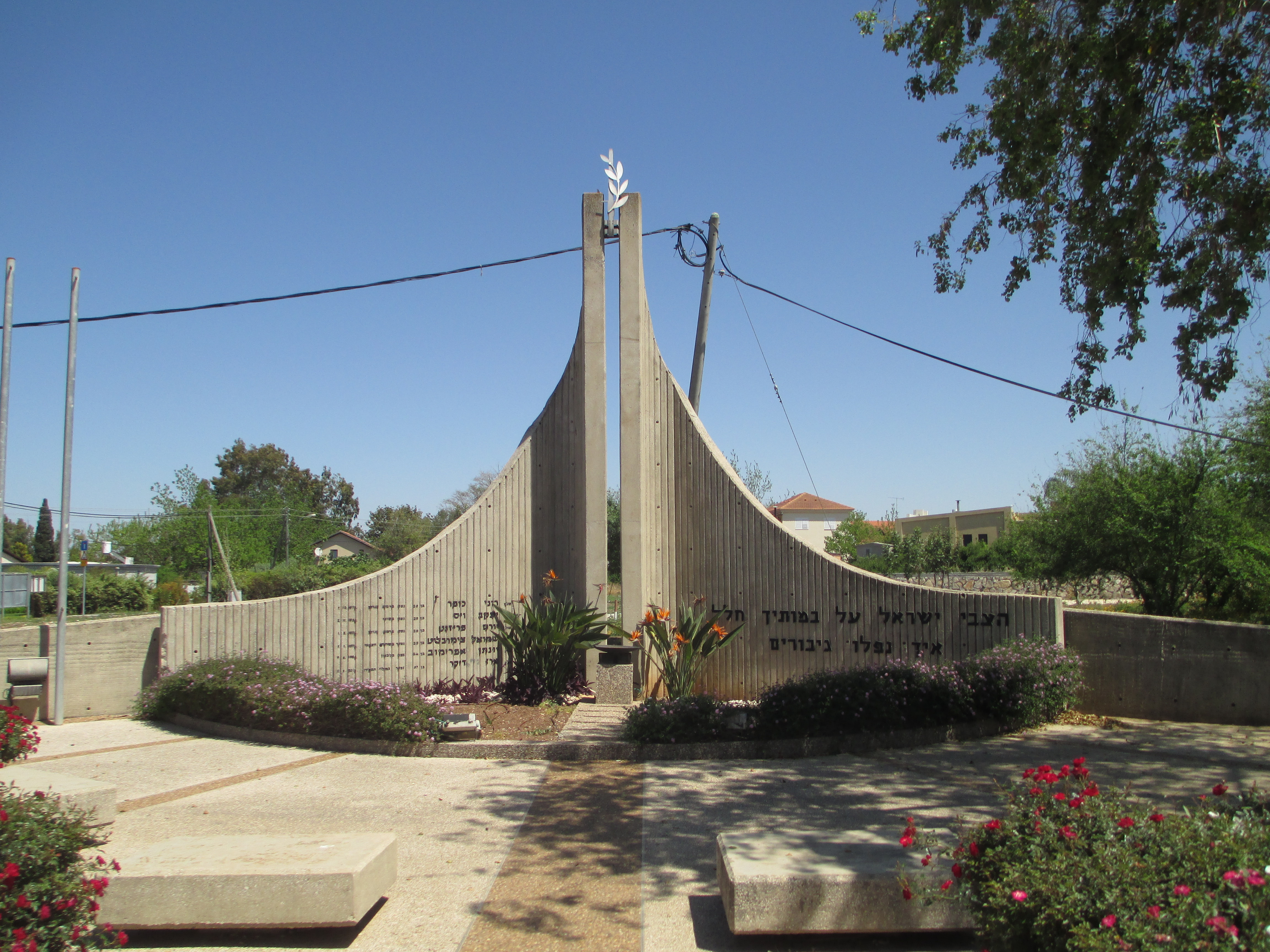 War memorial in Kfar Baruch